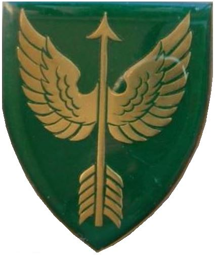 SADF era Wemmer Pann Commando shoulder flash